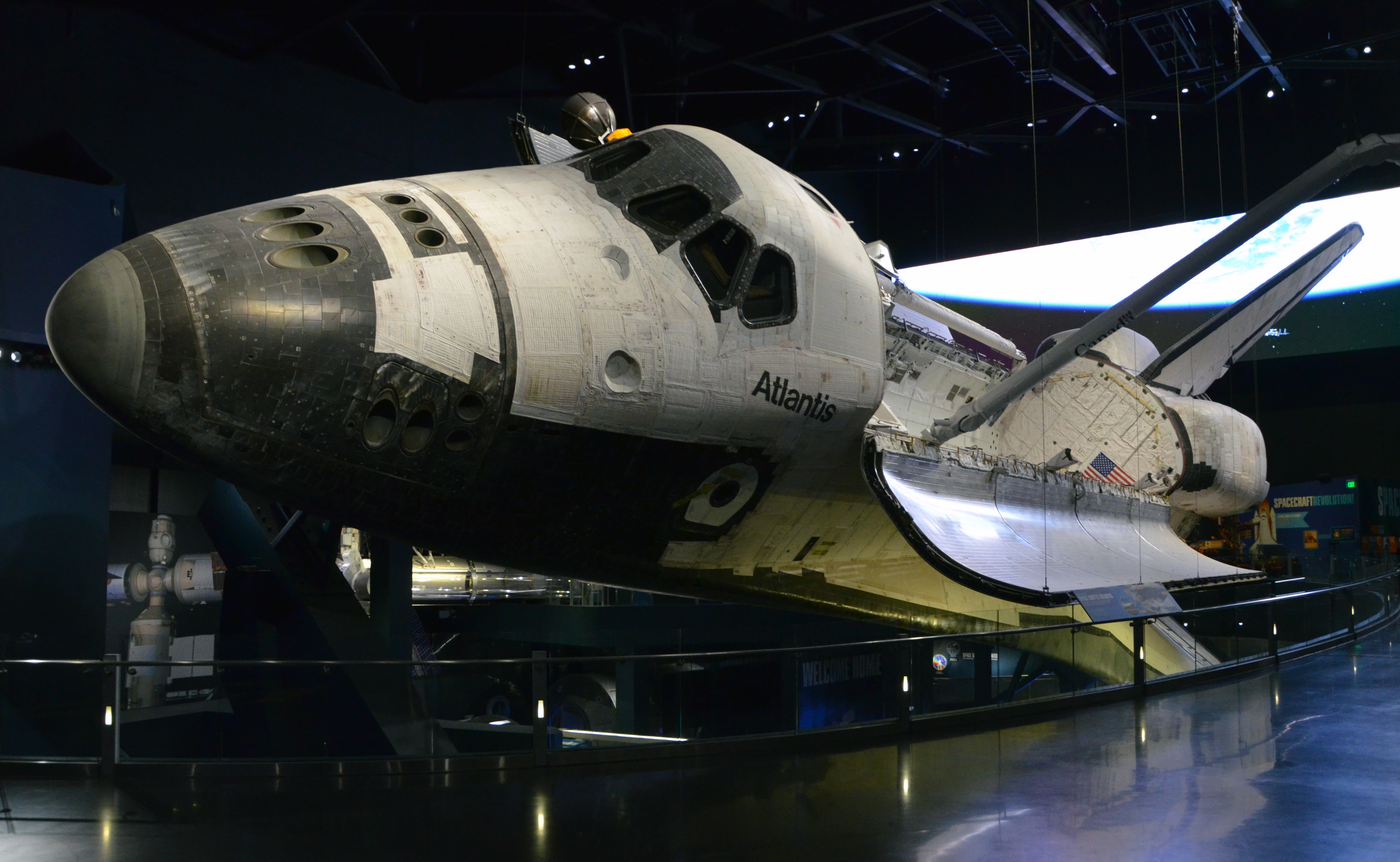 The Space Shuttle Atlantis displayed at the Kennedy Space Center Visitor Complex in Merritt Island, Florida (USA).